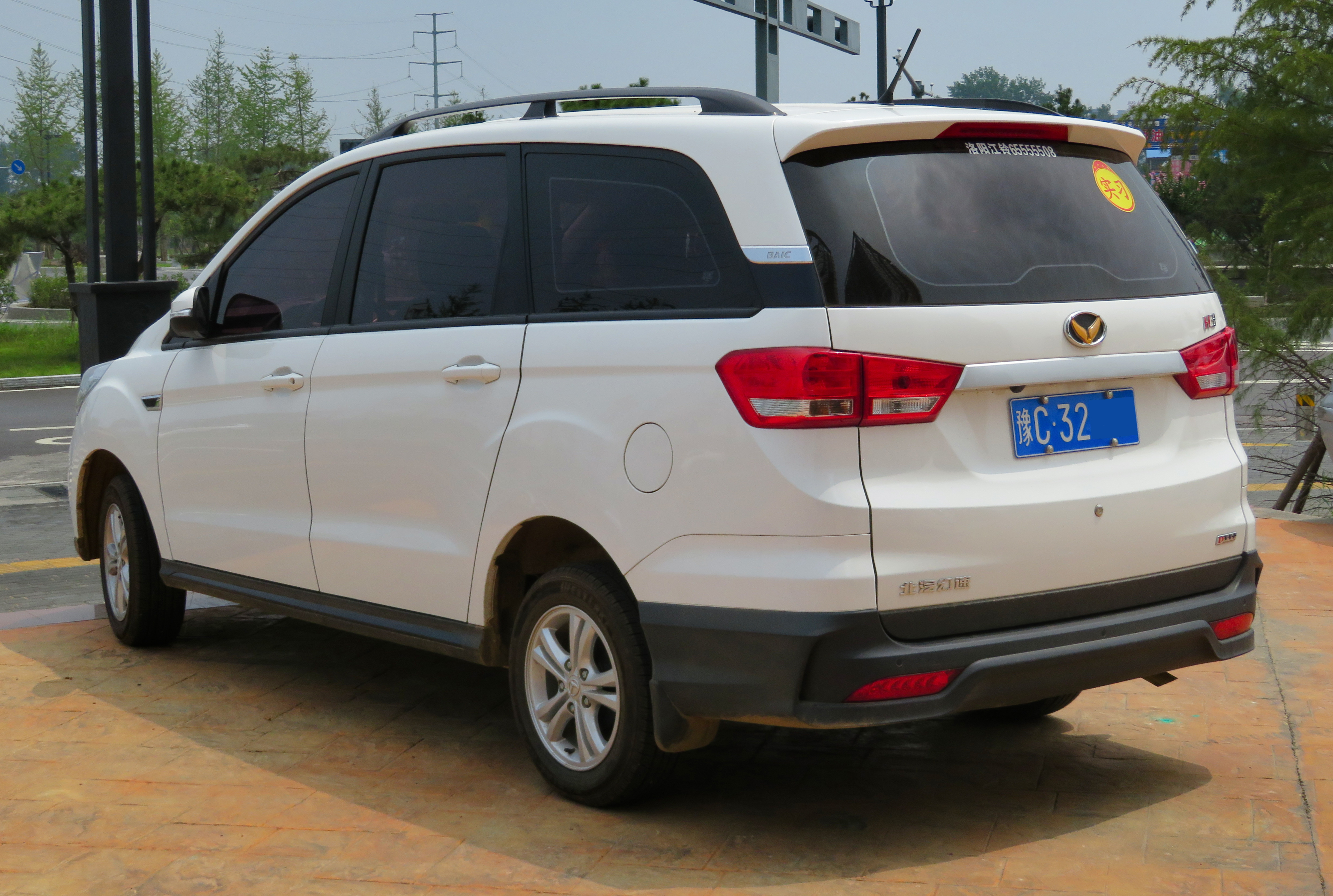 A 2018 BAIC Huansu H3 DVVT photographed in Luoyang, Henan province, China